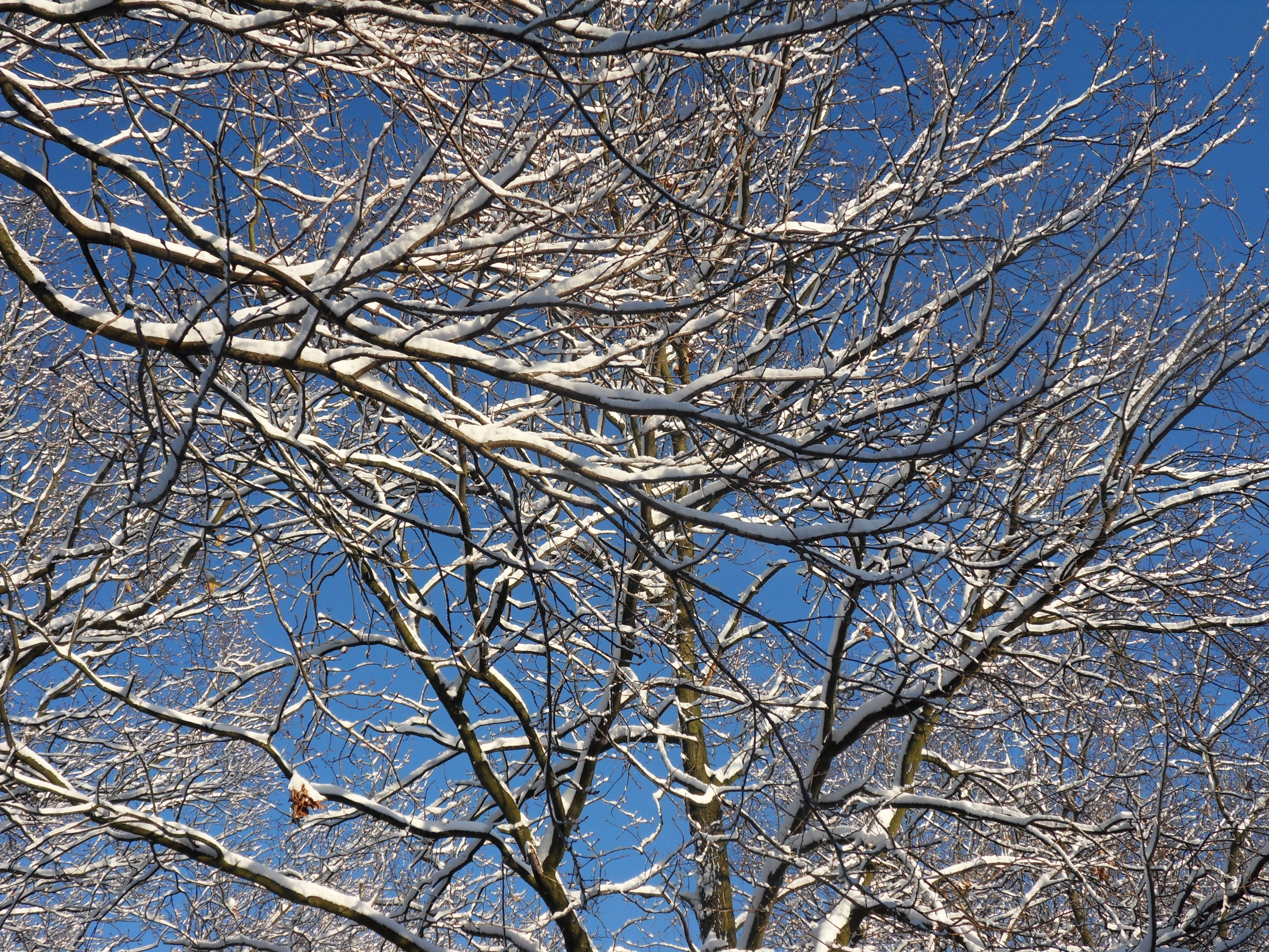 Snow on tree branches